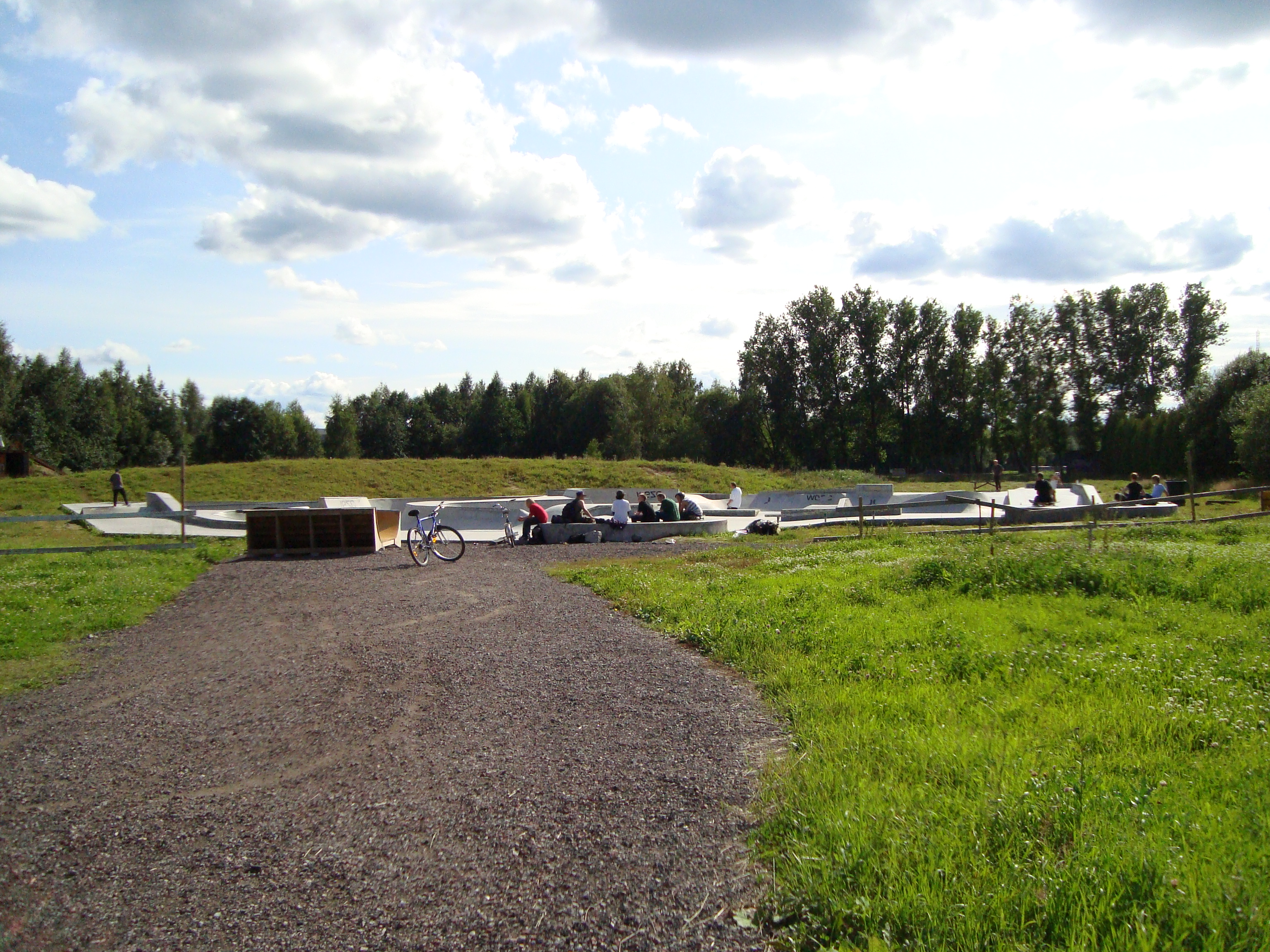 Skatboard park Palatset, Avesta, Sweden